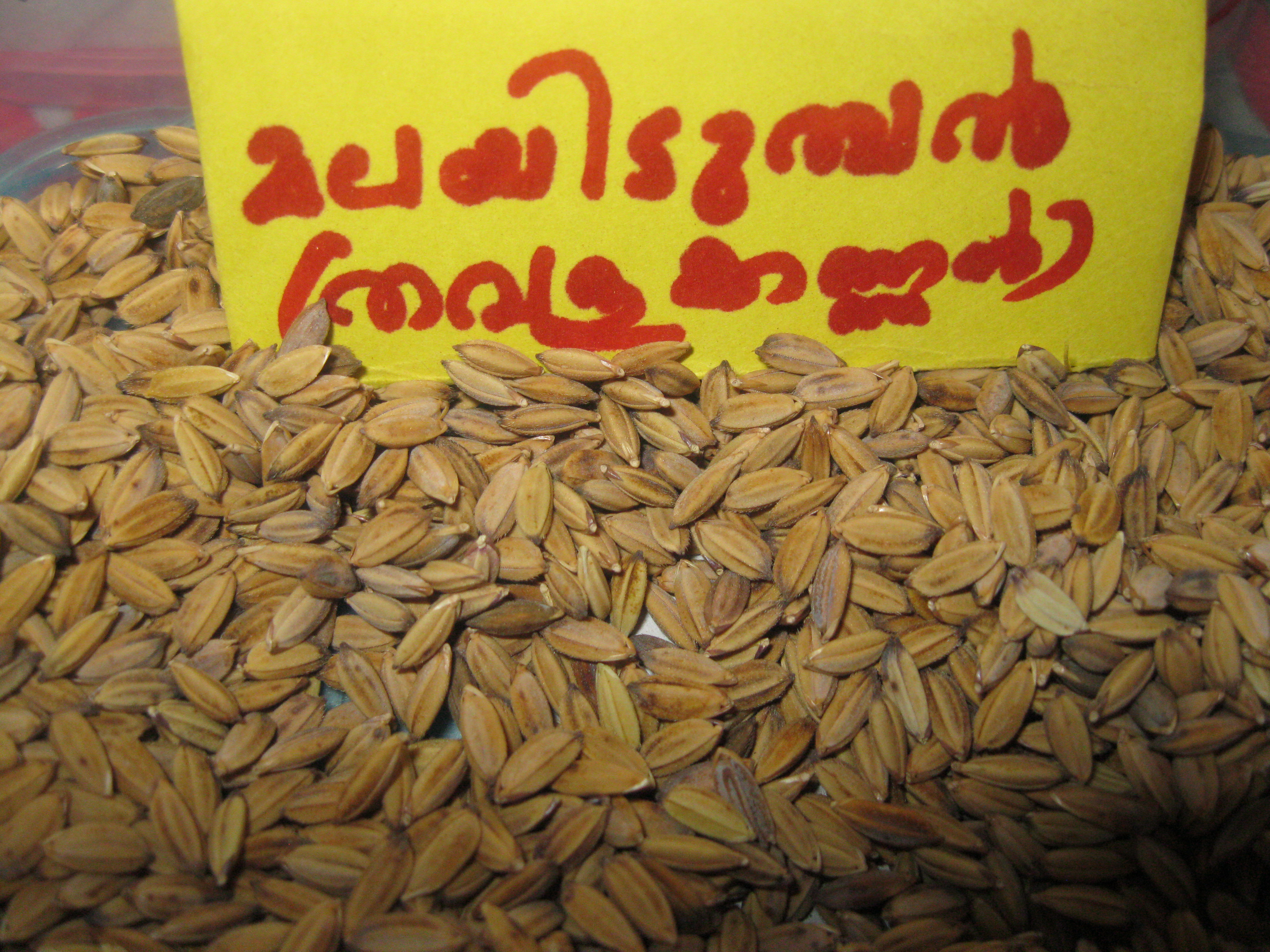 thavalakkannan, malayitumban,a special type of paddy seed in Kerala, India